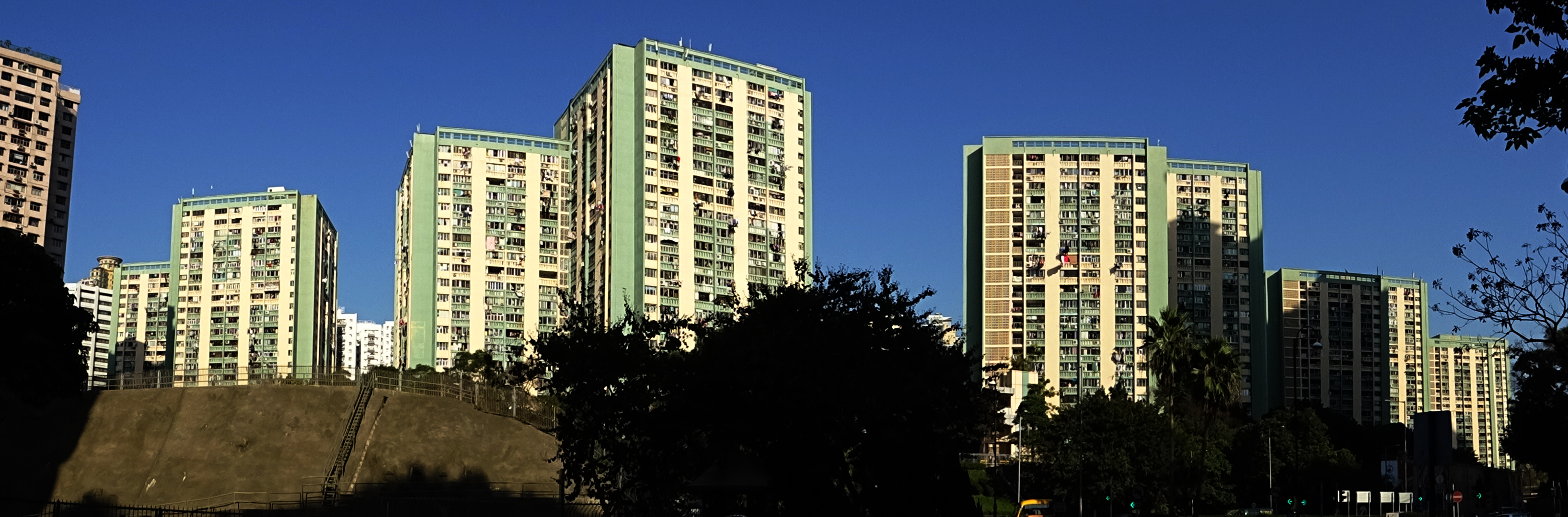 Oi Man Estate in Ho Man Tin, Hong Kong.